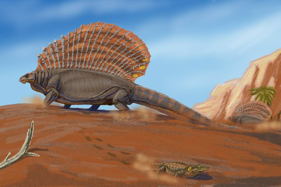 This just might be a depiction of Edaphosaurus pogonias, to make a guess from the title. If you know more about this image, please place a good description here.